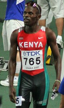 World Athletics Championships 2007 in Osaka - 800 metres runner Wilfried Bungei after the semifinal